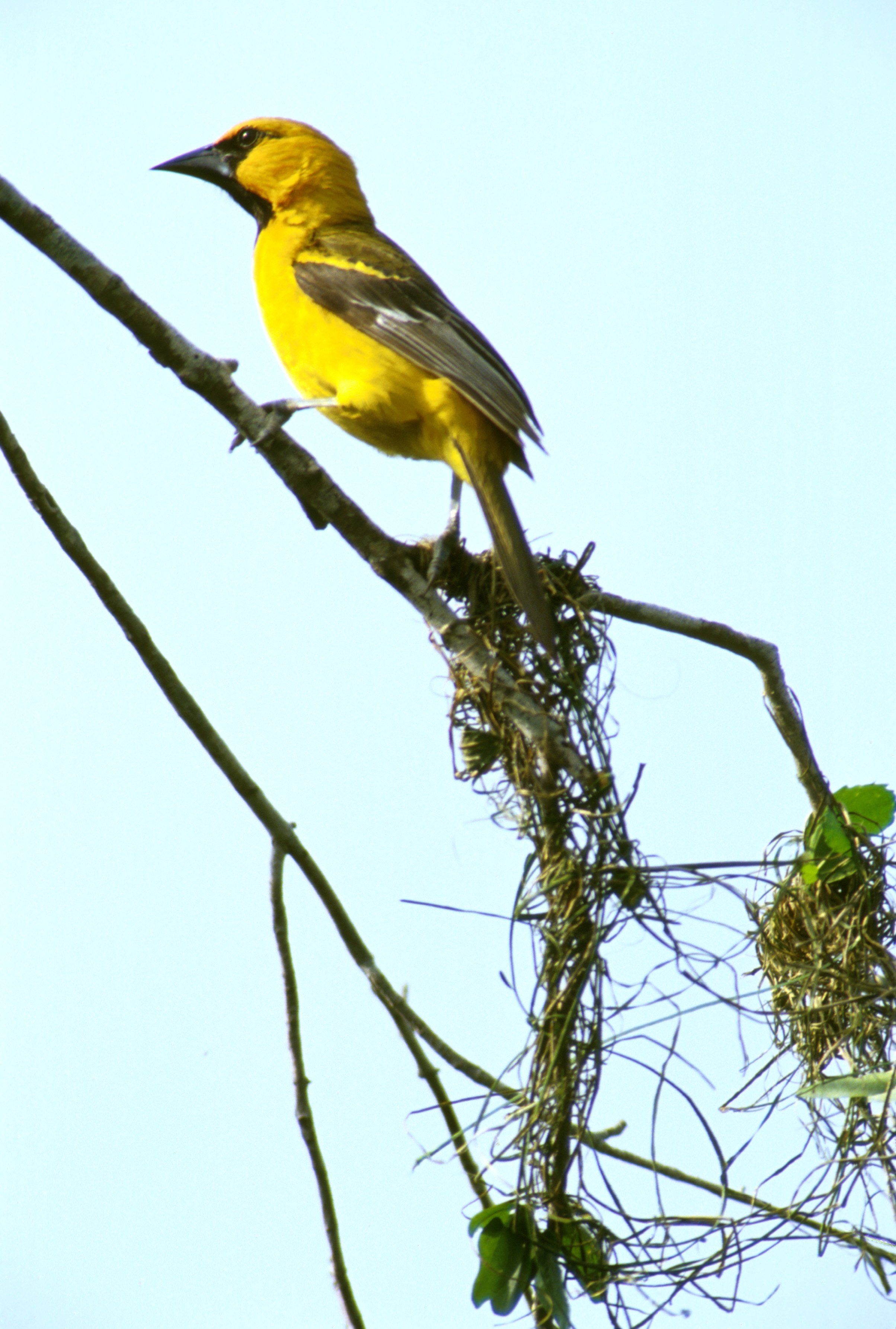 Altamira Oriole